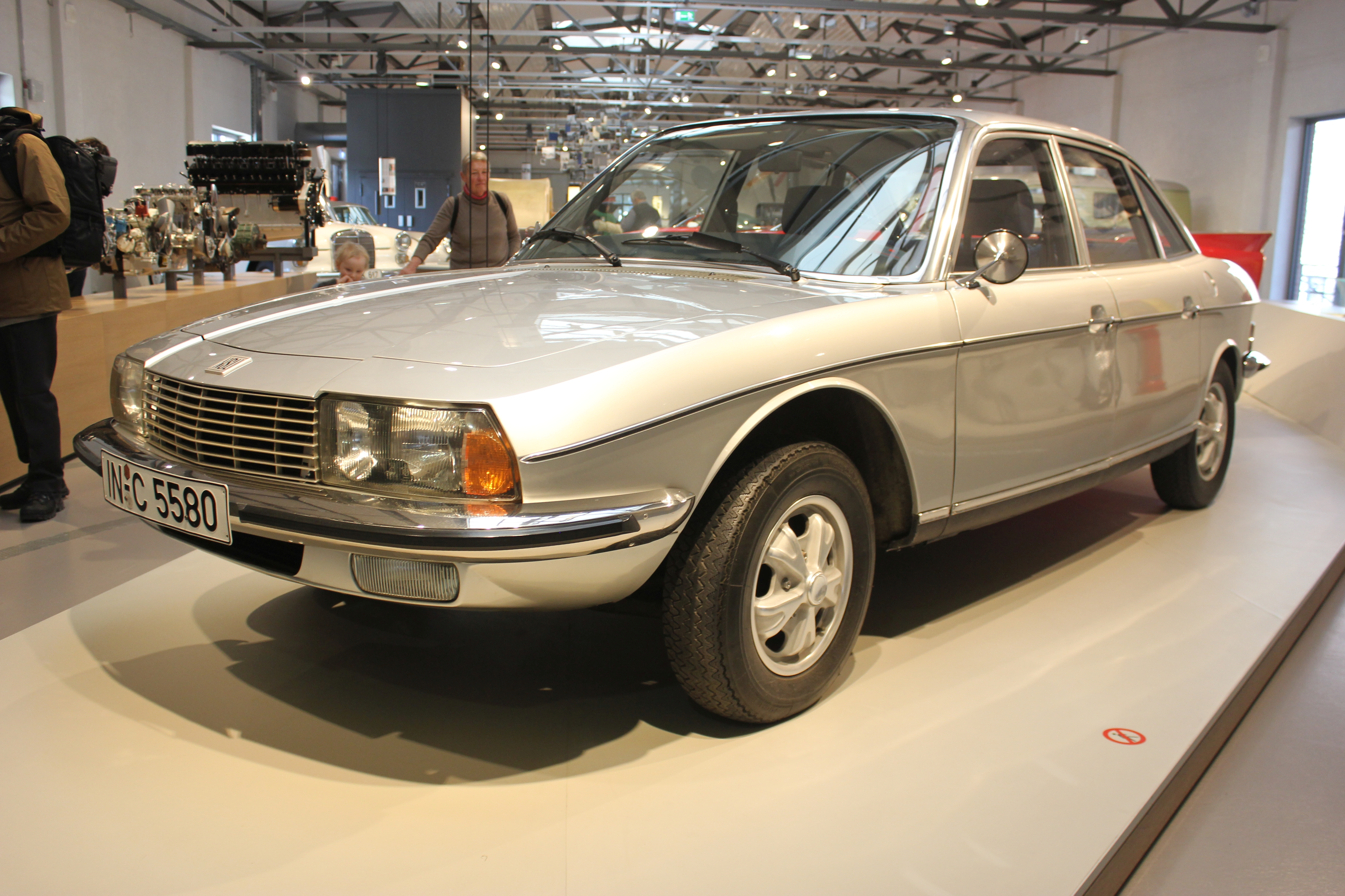 Berlin - German Museum of Technology - NSU Ro80 (1971)